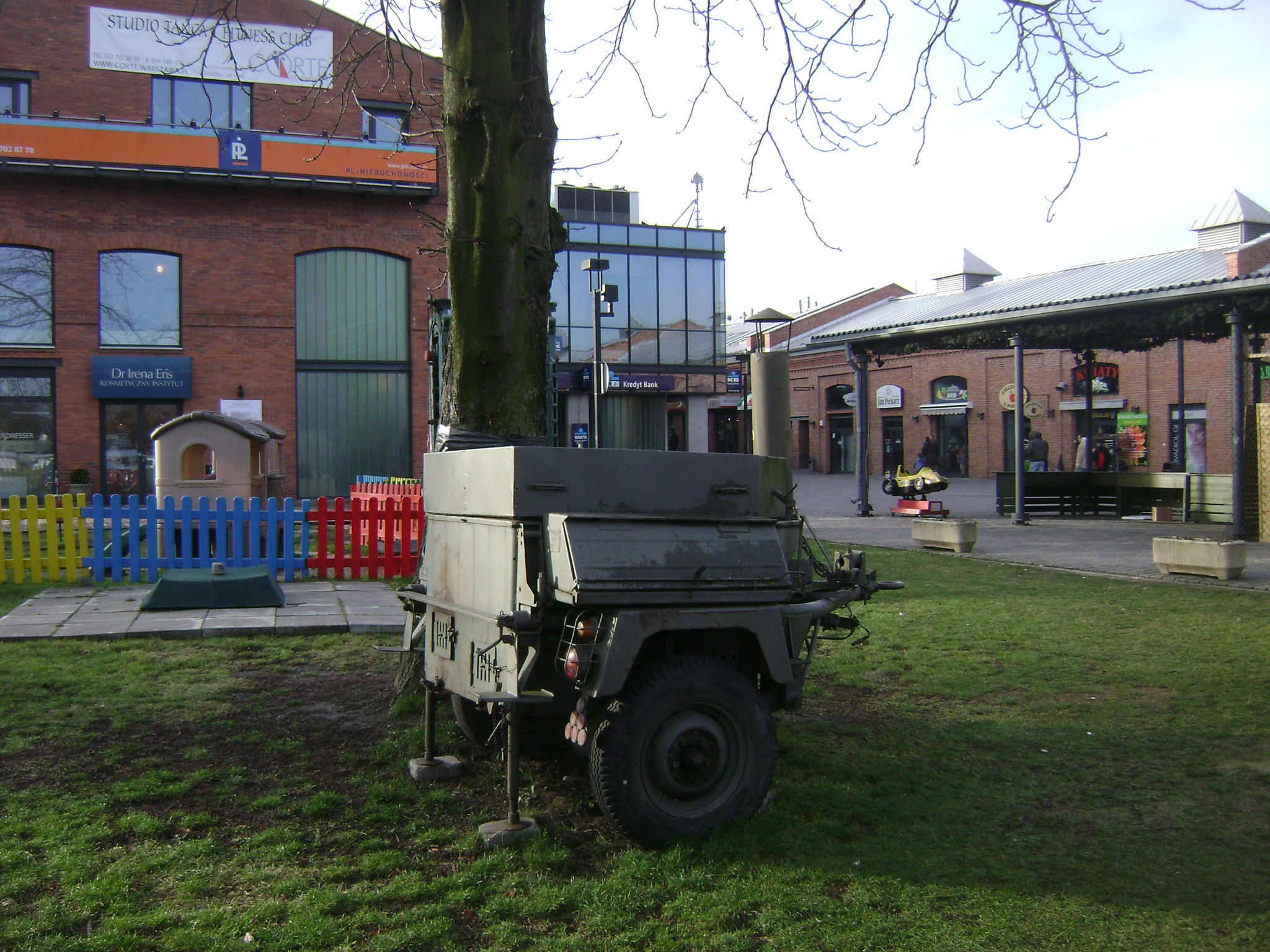 A KP-340 field kitchen in Konstancin-Jeziorna, Poland